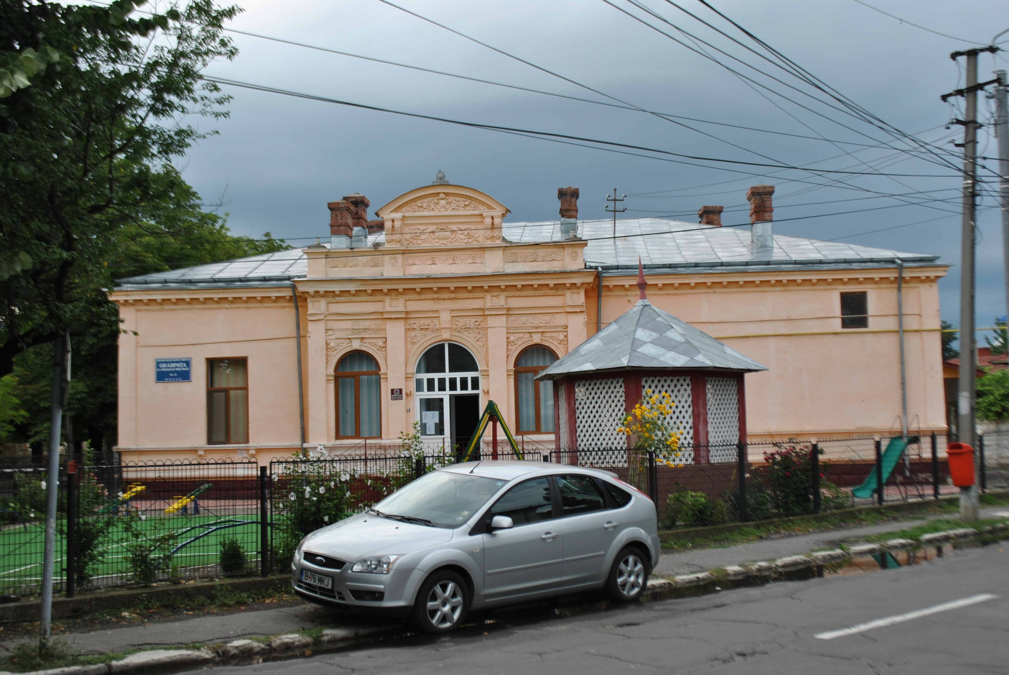 Historic building in Buzău, Romania: nursery school no. 6Română: Clădire istorică din Buzău, România: grădiniţa nr. 6